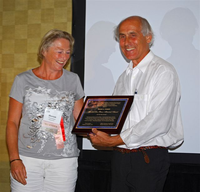 Dr. Bernd Schmid at the 2007 Eric Berne Memorial Award Ceremony